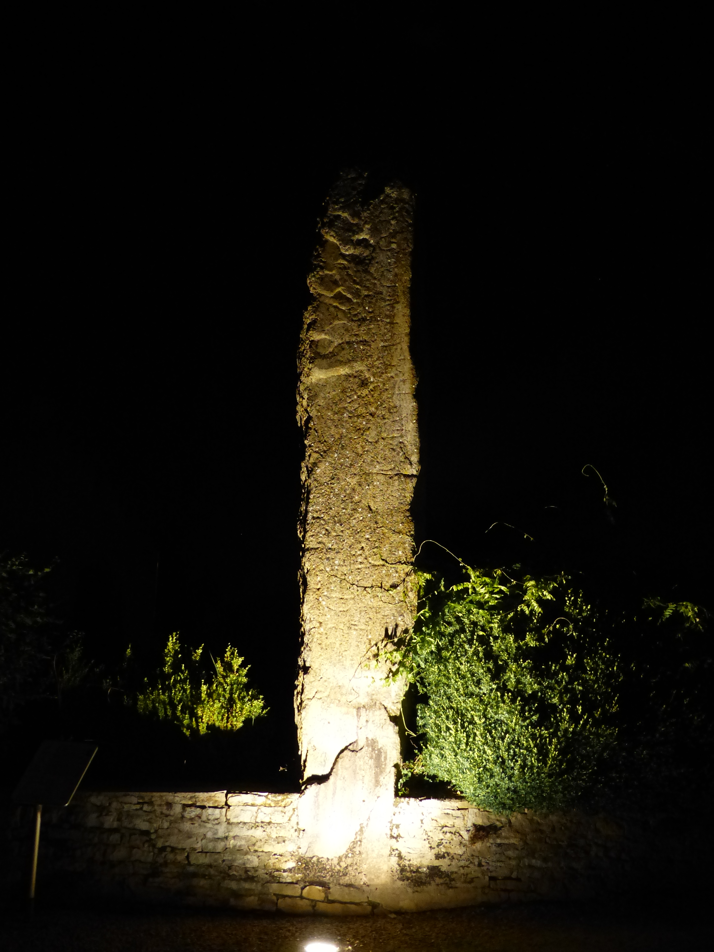 Menhir de Saint-Micaud de nuit (Saône et Loire)